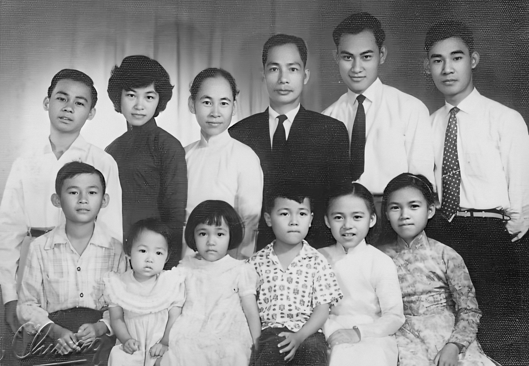 This is a picture of the Pham family in 1960 during the Vietnam War.